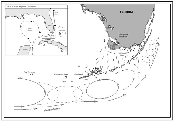 Map showing current patterns throughout the Florida Keys. Note how clockwise and counterclockwise gyres exist shoreward of the Florida Current.